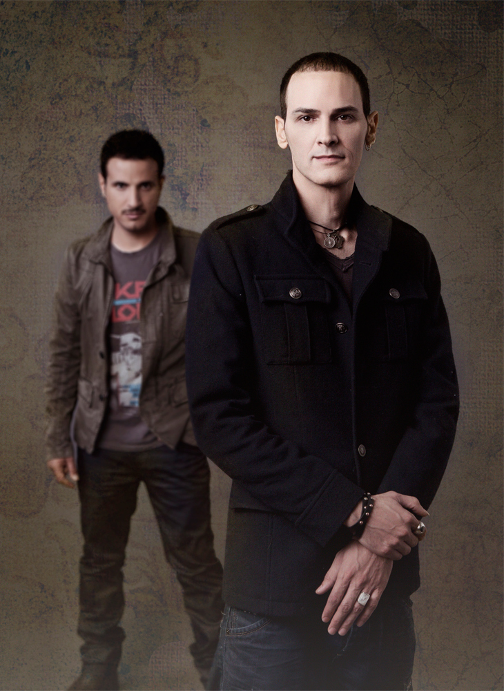 Singer Nimrod Lev and musician Eliran Levi in the single "Matkhil Akhshav" ("Beginning Now") from the project "Panasim".